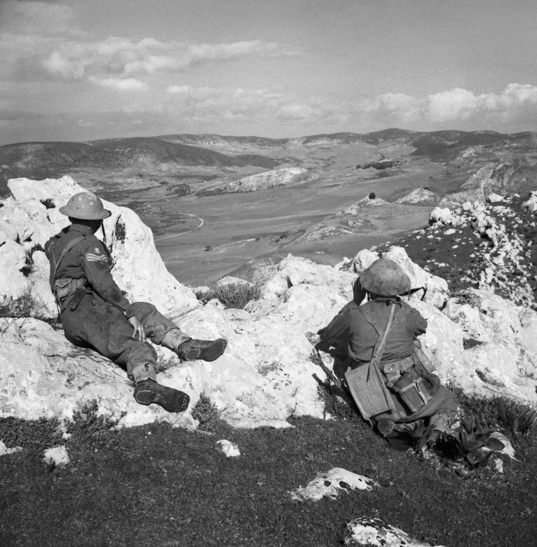 Two British soldiers on a hilltop keep watch on the enemy-occupied town of Mateur, Tunisia, 2 January 1943. Two British soldiers on a hilltop keep watch on the enemy-occupied town of Mateur, 2 January 1943.